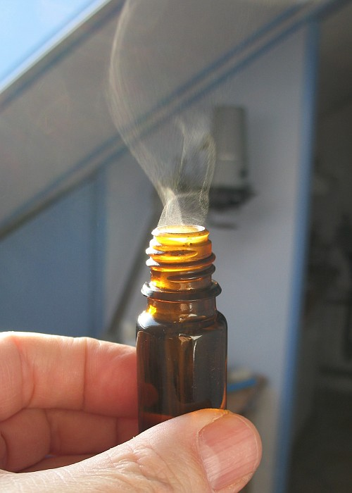 Fuming nitric acid